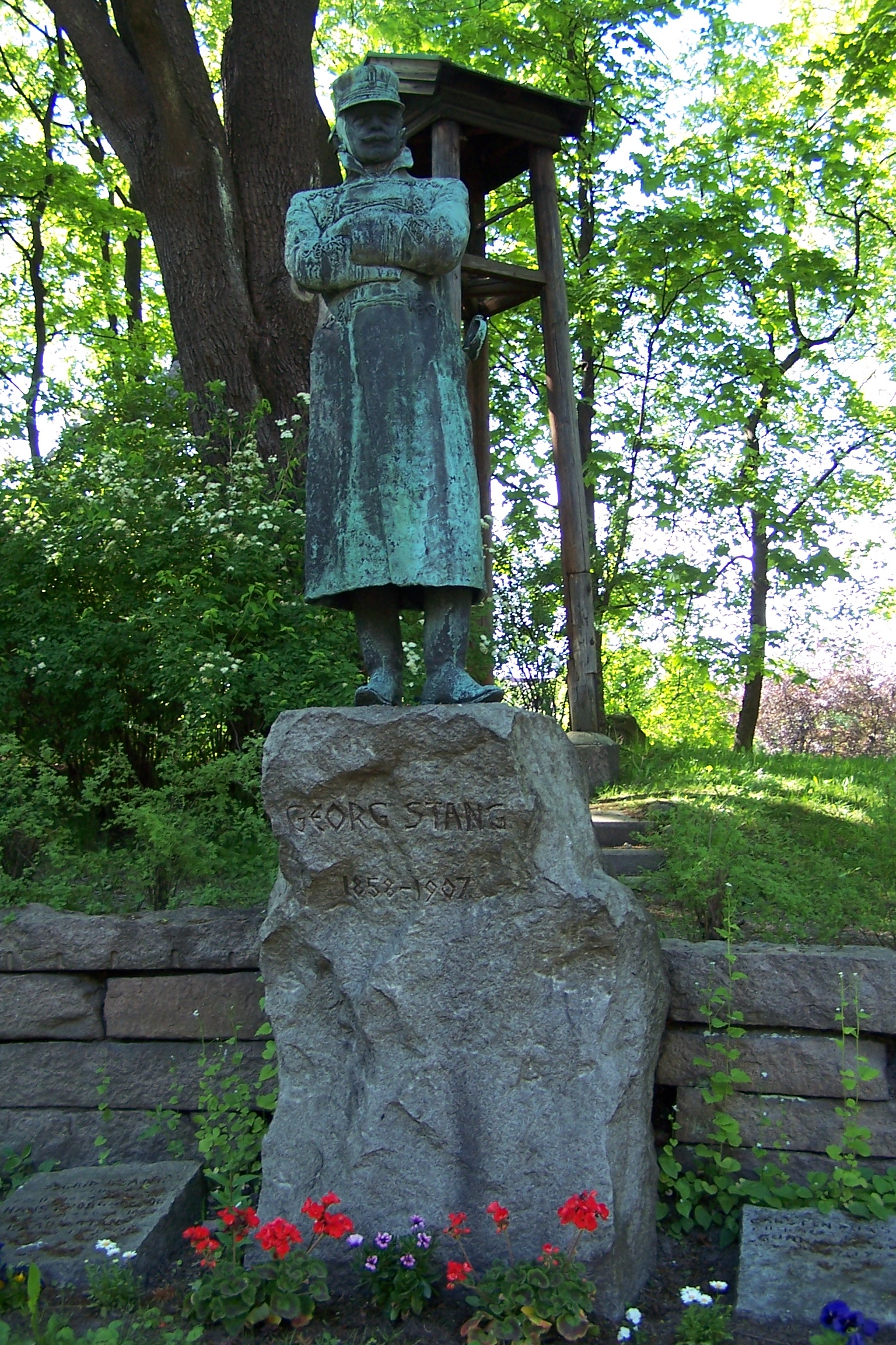 Tomb of Georg Stang at Vår Frelsers gravlund, Oslo. Statue in bronze from 1909 by Gustav Lærum.